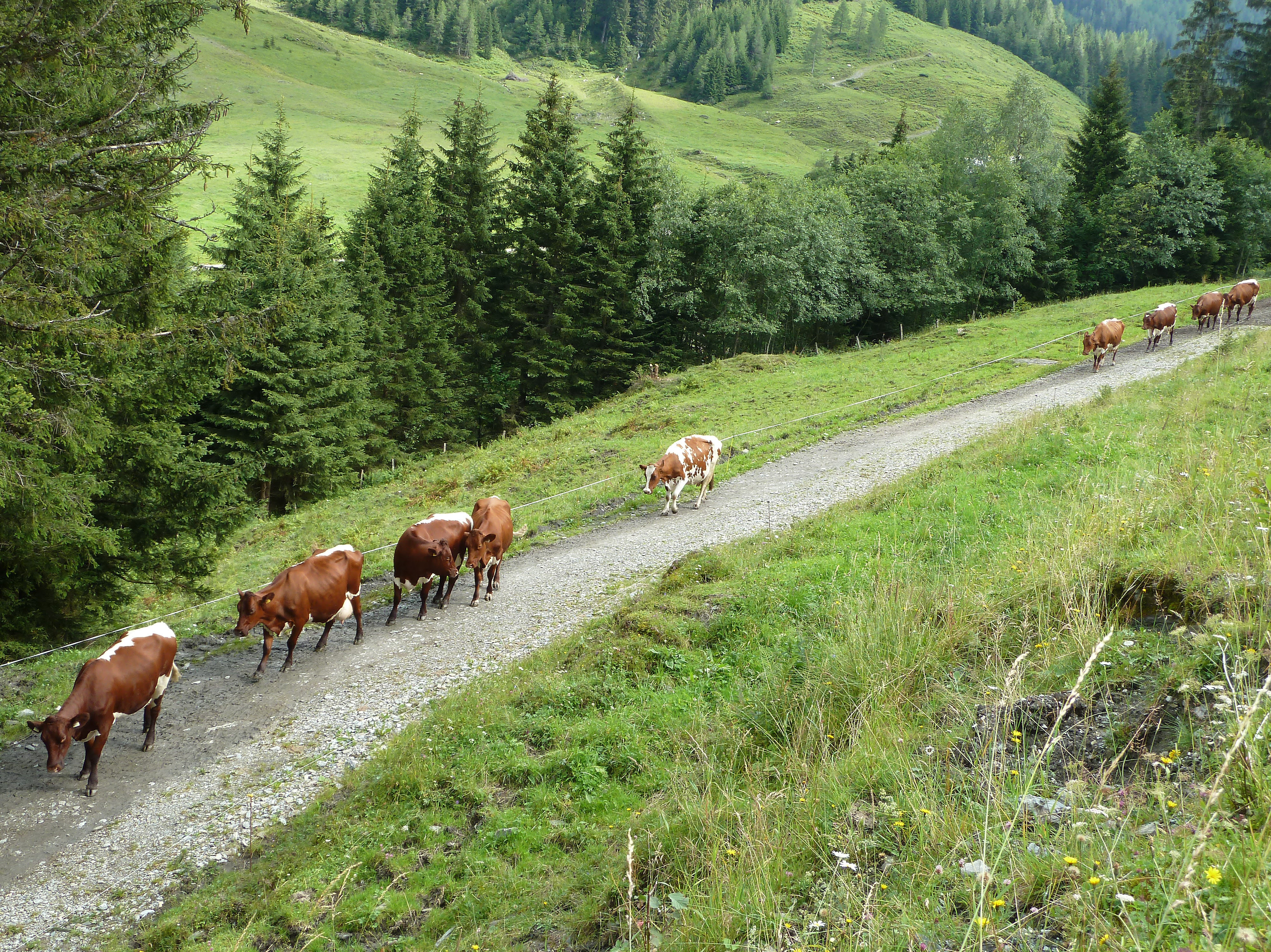 Pinzgau cattle on mountain (or valley) pastures in the Pinzgau, Salzburg (state), Austria.